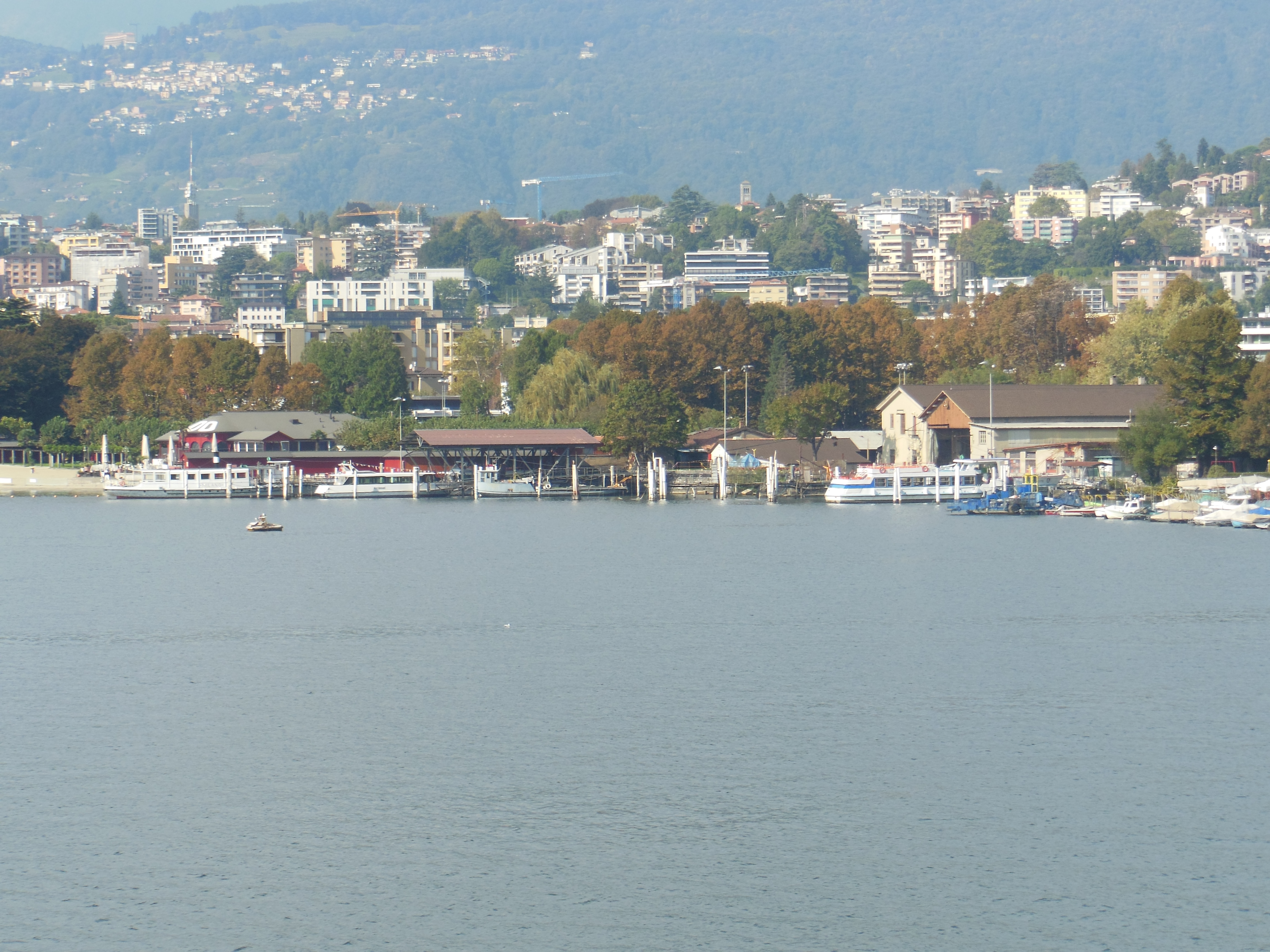 The shipyard of the Società Navigazione del Lago di Lugano. For more information, see wikipedia article Società Navigazione del Lago di Lugano.